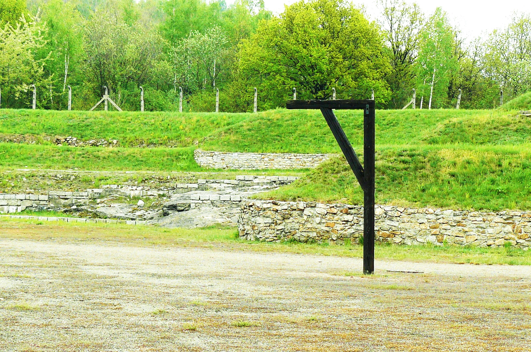 KL Gross-Rosen. Gallows.